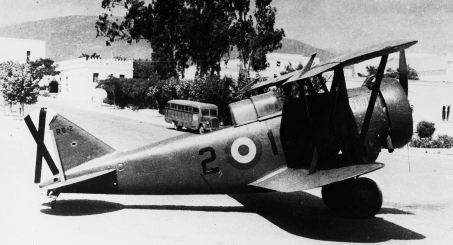 PictionID: 42766086 - Title:Canadian Car and Foundry G-23 Spain 1939 [GHC via RJF] *Catalog: � Filename: � ---* Image from the René Francillon Photo Archive. Having had his interest in aviation sparked by being at the receiving end of B-24s bombing occupied France when he was 7-yr old, René Francillon turned aviation into both his vocation and avocation. Most of his professional career was in the United States, working for major aircraft manufacturers and airport planning/design companies. All along, he kept developing a second career as an aviation historian, an activity that led him to author more than 50 books and 400 articles published in the United States, the United Kingdom, France, and elsewhere. Far from “hanging on his spurs,” he plans to remain active as an author well into his eighties.-------PLEASE TAG this image with any information you know about it, so that we can permanently store this data with the original image file in our Digital Asset Management System.--------------SOURCE INSTITUTION: San Diego Air and Space Museum Archive